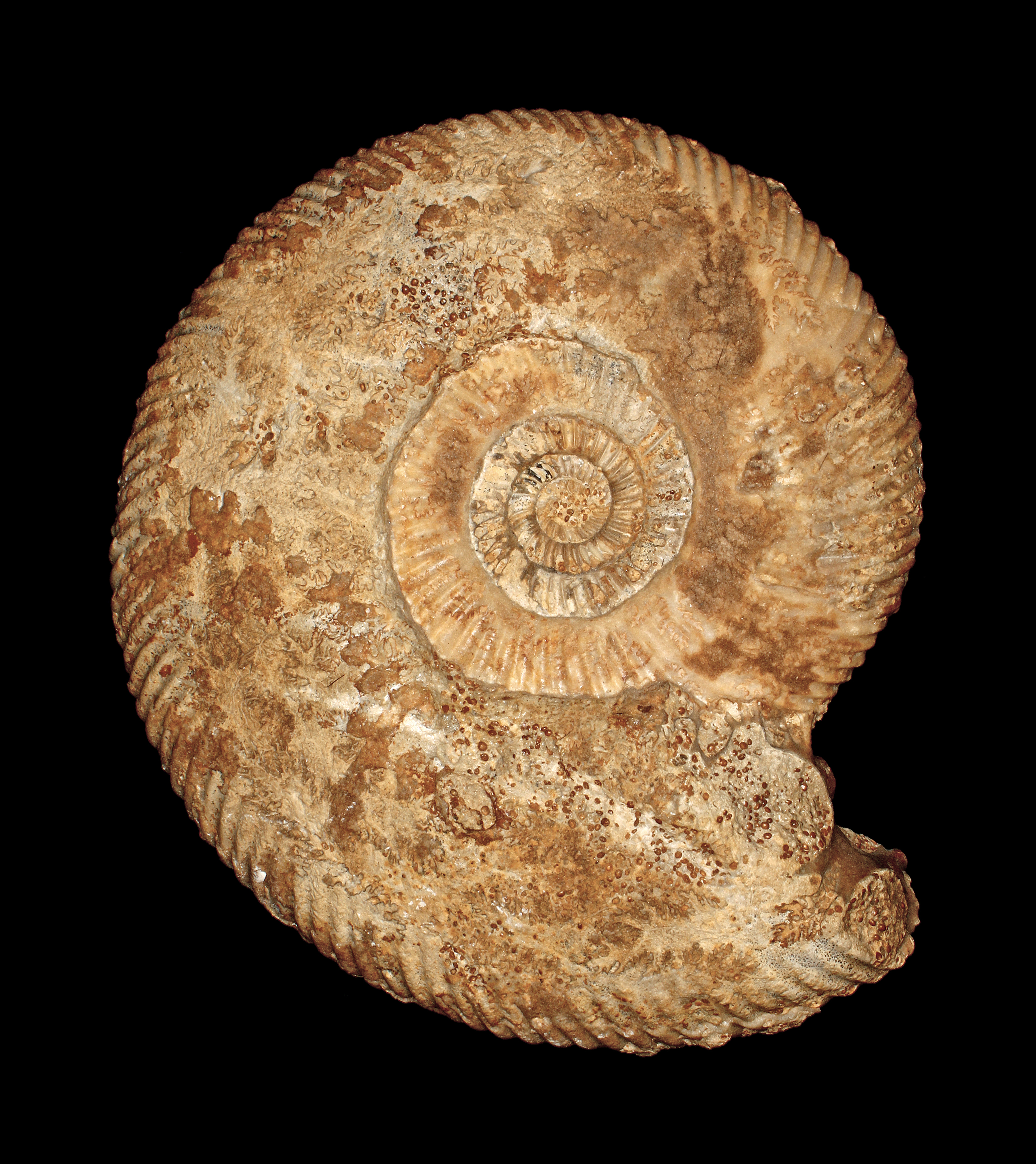 Parkinsonia parkinsoni, Parkinsoniidae; Diameter 14,5 cm; Upper Bajocian, Middle Jurassic; Evrecy (Calvados, Basse-Normandie, France); own collection, therefore not geocoded.Software: Adobe Photoshop, Combine ZM.